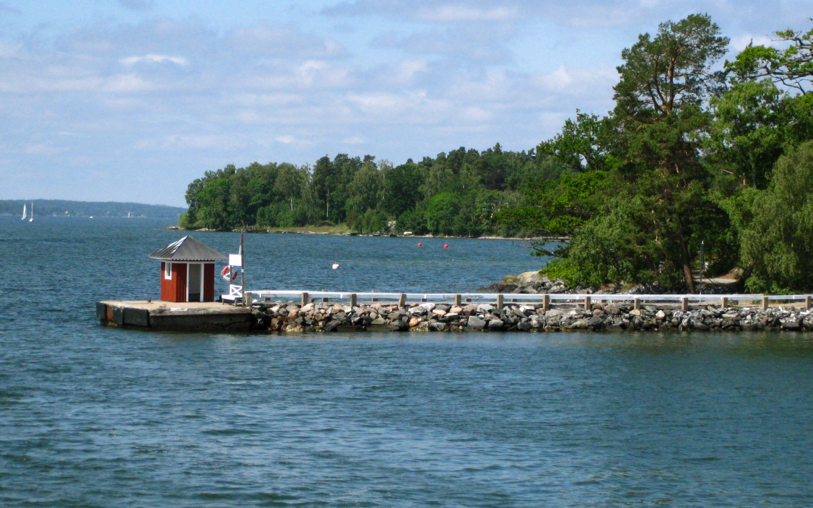 Karlsudd jetty south of Vaxholm in Stockholm archipelago.